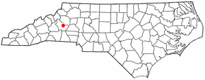 Category:North Carolina Dot Maps